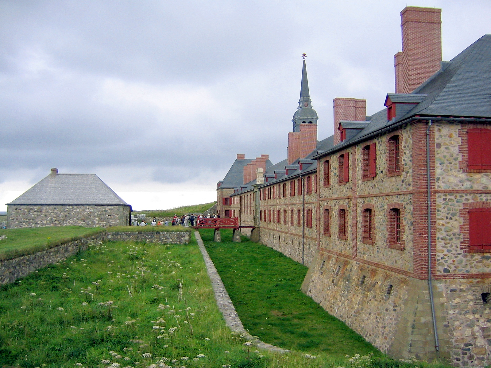 Fortress of Louisbourg, Cape Breton Island, Nova Scotia